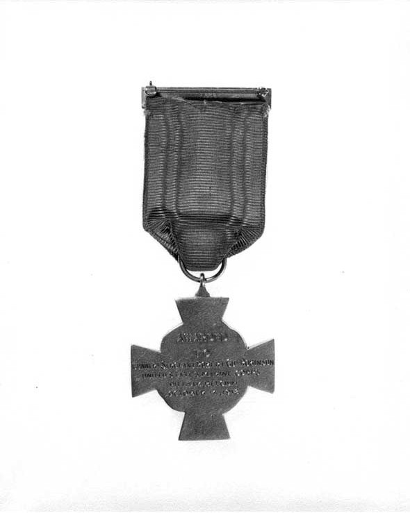 Photo #: NH 105341 U.S. Navy Medal of Honor Reverse of Medal of Honor ("Tiffany Cross" pattern) awarded to Gunnery Sergeant Robert G. Robinson, USMC, for his "extraordinary heroism" during air raids in which he was wounded over Pittham, Belgium, October 1918. U.S. Naval Historical Center Photograph.